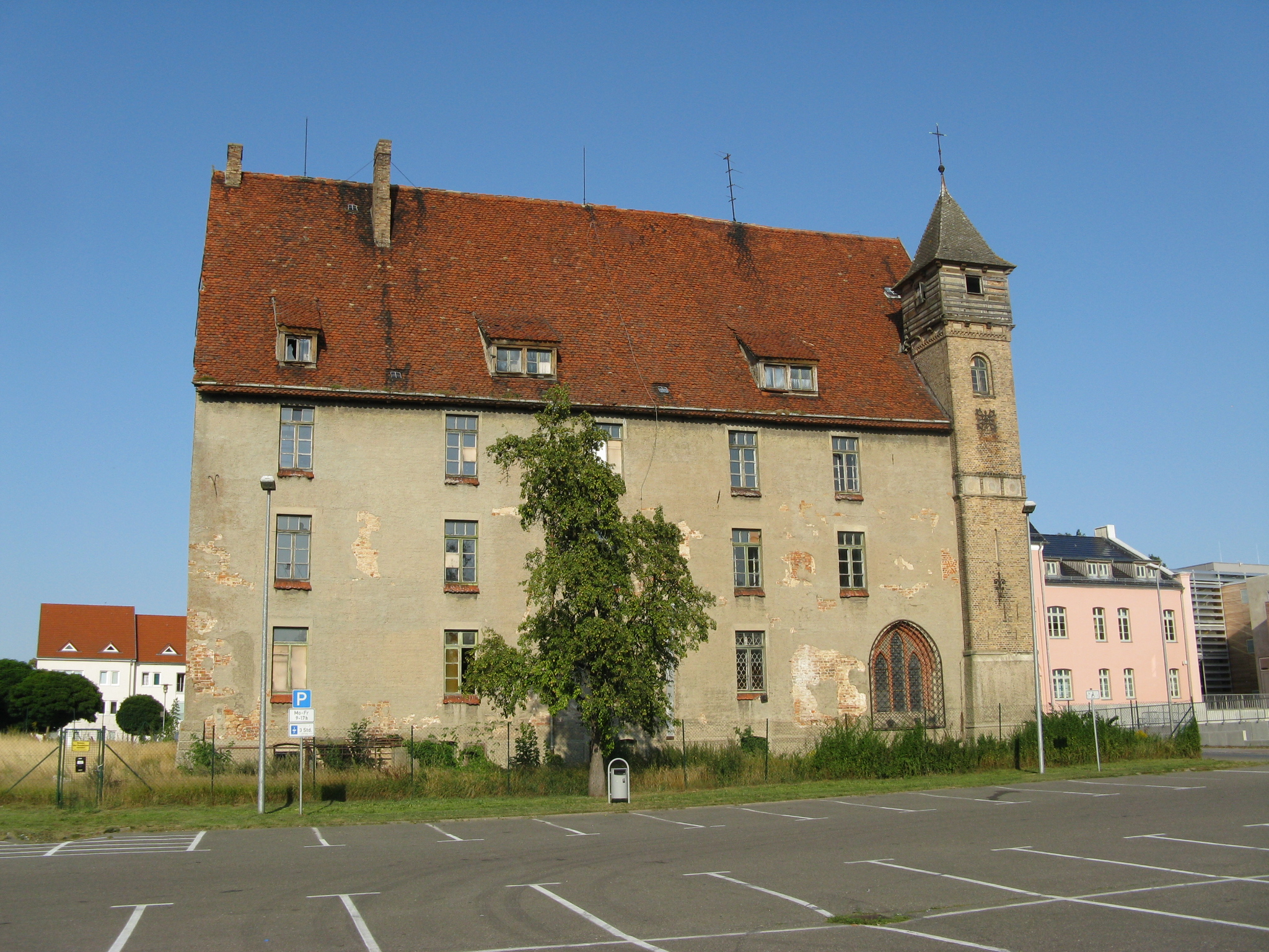 Castle in Bützow, district Güstrow, Mecklenburg-Vorpommern, Germany